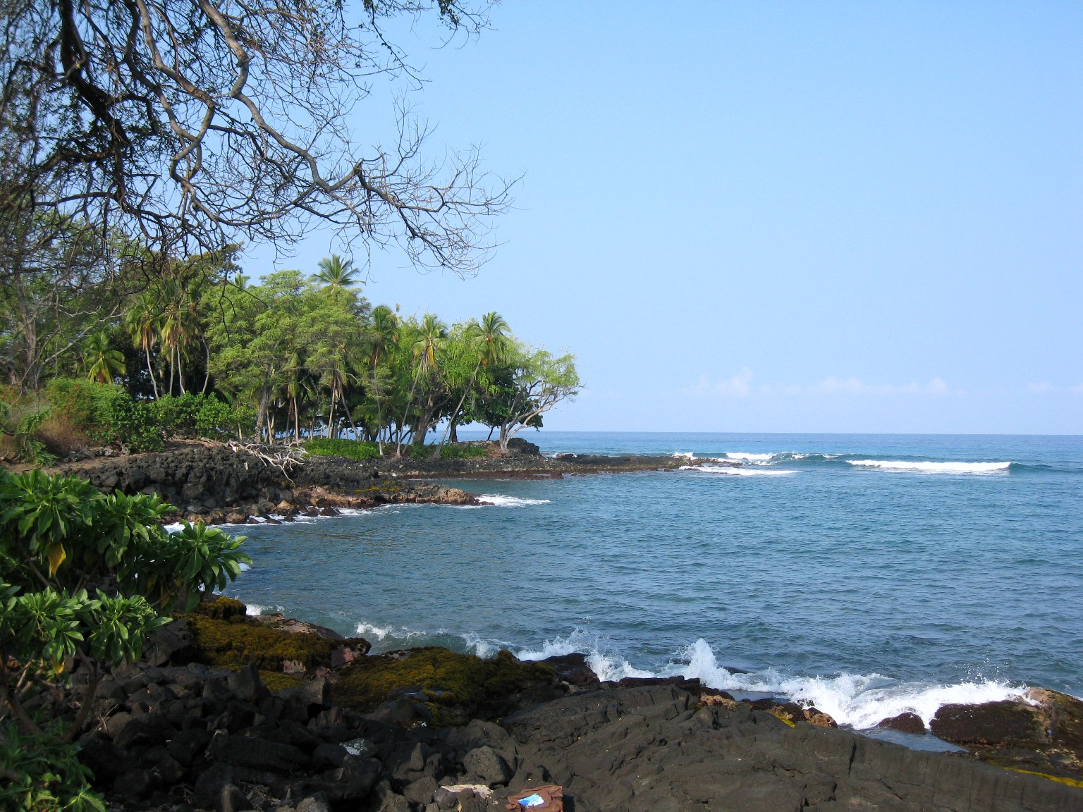 Kamoa Point in Kona, on the Big island of Hawaiʻi.. This was once the site of a large royal complex, and is still a popular surfing spot.